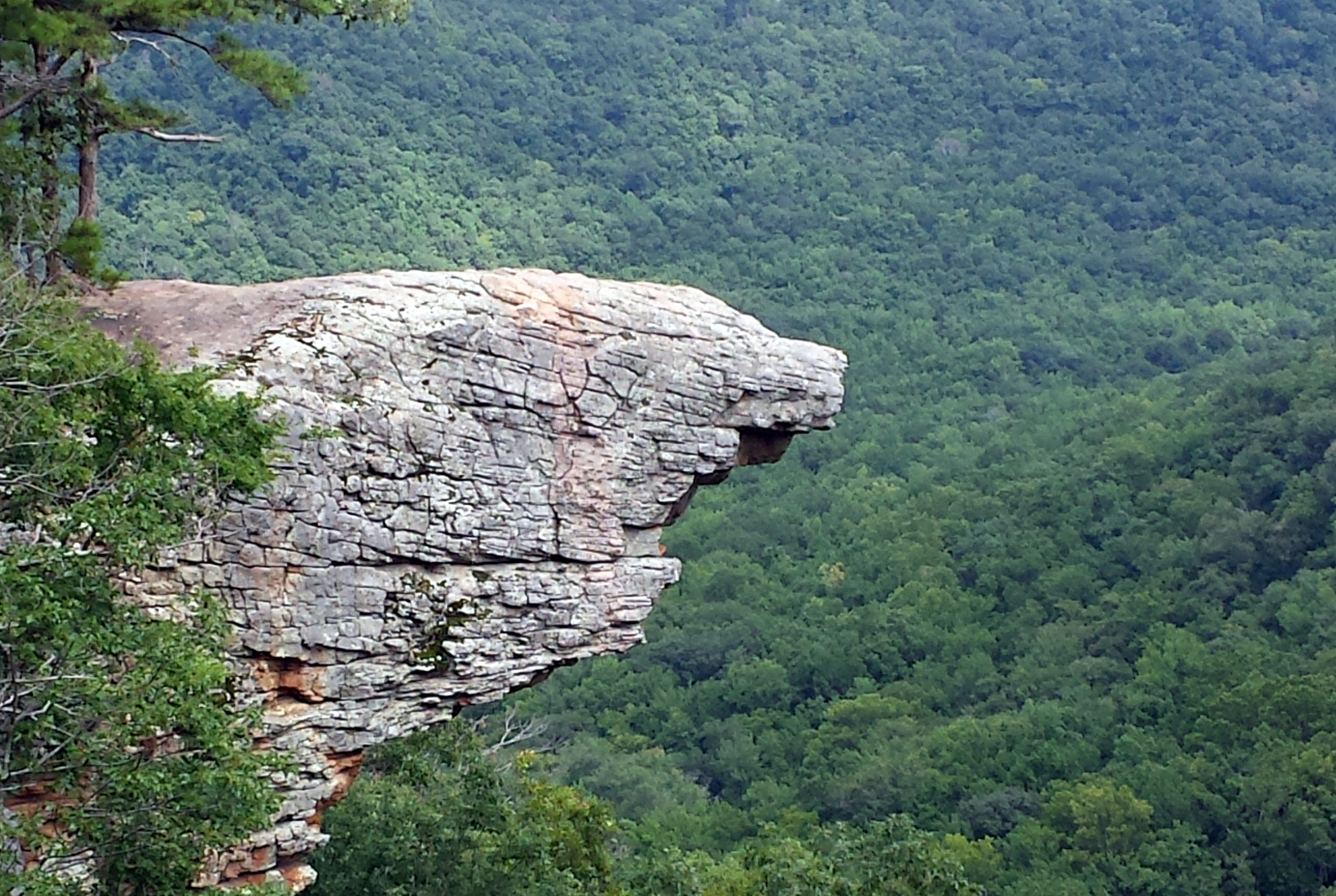 View from bluffline along the Hawksbill Crag Trail in the Upper Buffalo Wilderness in Newton County, AR